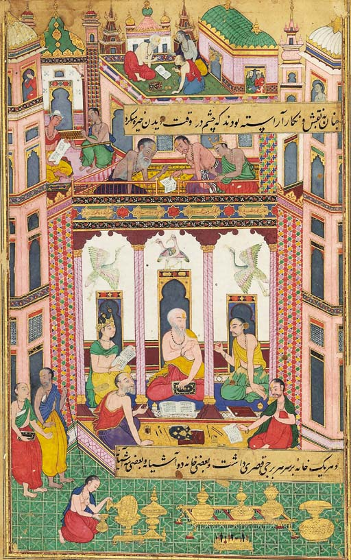 From Ramayana of Hamida banu begum, mother of akbar. The building for King Dasaratha's sacrifice By Nur Muhammad, Mughal India, 1594 AD Folio 27 recto (p. 53), gouache heightened with gold on paper, in the centre ground the figures of Brahmins studying the ancient texts with manuscripts and writing implements around them, other figures similarly engaged on the roof tops behind and above them, signed by the artist Nur Muhammad in a cartouche on the frieze, two lines of black nasta'liq within panels, verso with 18ll. of text within red and gold outlines Miniature 14 x 8¼in. (35.4 x 21cm.); text area 9½ x 5½in. (23.7 x 13.8cm.) This miniature represents the preparation for the Vedic sacrifice of the childless King Dasaratha in the hope of producing offspring. The verso dwells on the decoration of the walls with paintings, rather than on the sacificial pit which is found in the original Sanskrit version. This remarkable miniature is a wealth of extraordinarily fine detail. The centre is dominated by the group of Brahmins seated in an alcove reading the ancient texts. A young prince seated on the left may represent Vishnu attending the sacred rite. The miniature also has considerable rich architectural detailing, notably the colourful roof tops and tiling and the fine wall-painting of cranes.